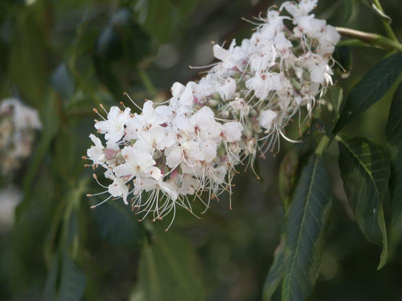 Ross, Marin Co., CA